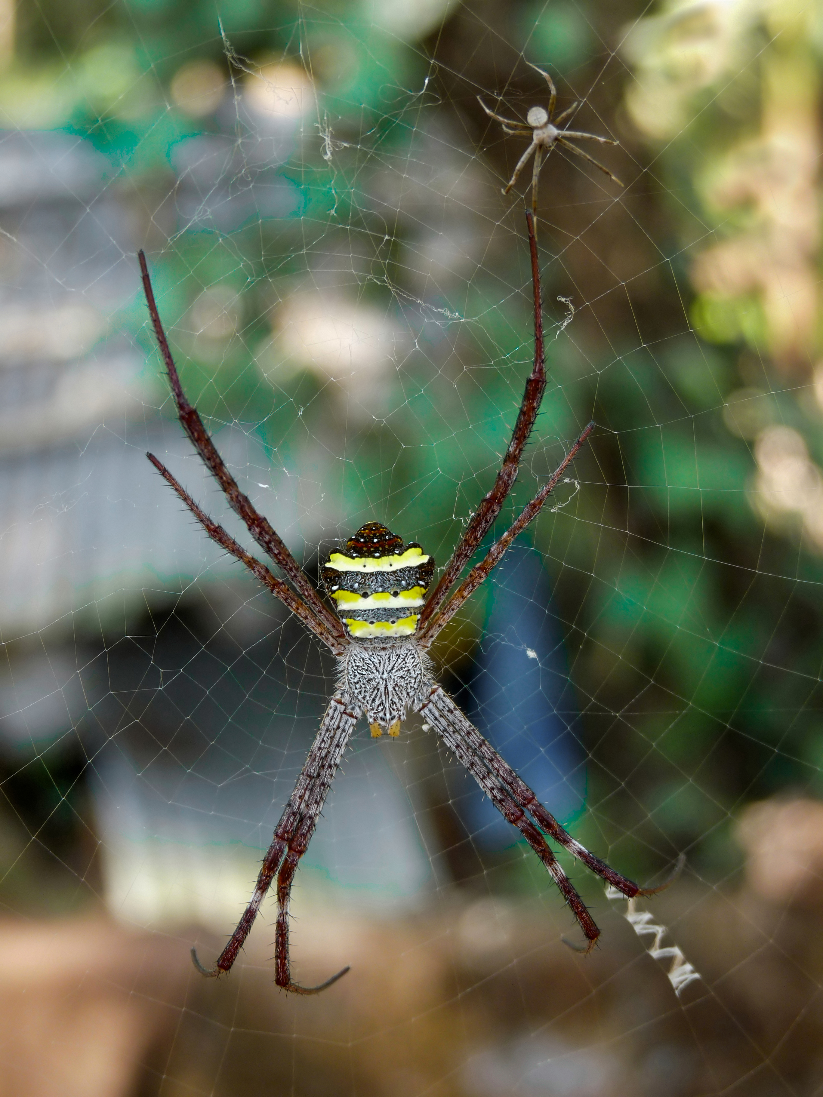 Argiope pulchella is a species of Orb-weaver spider. The small spider shuddering on her leg is a male.